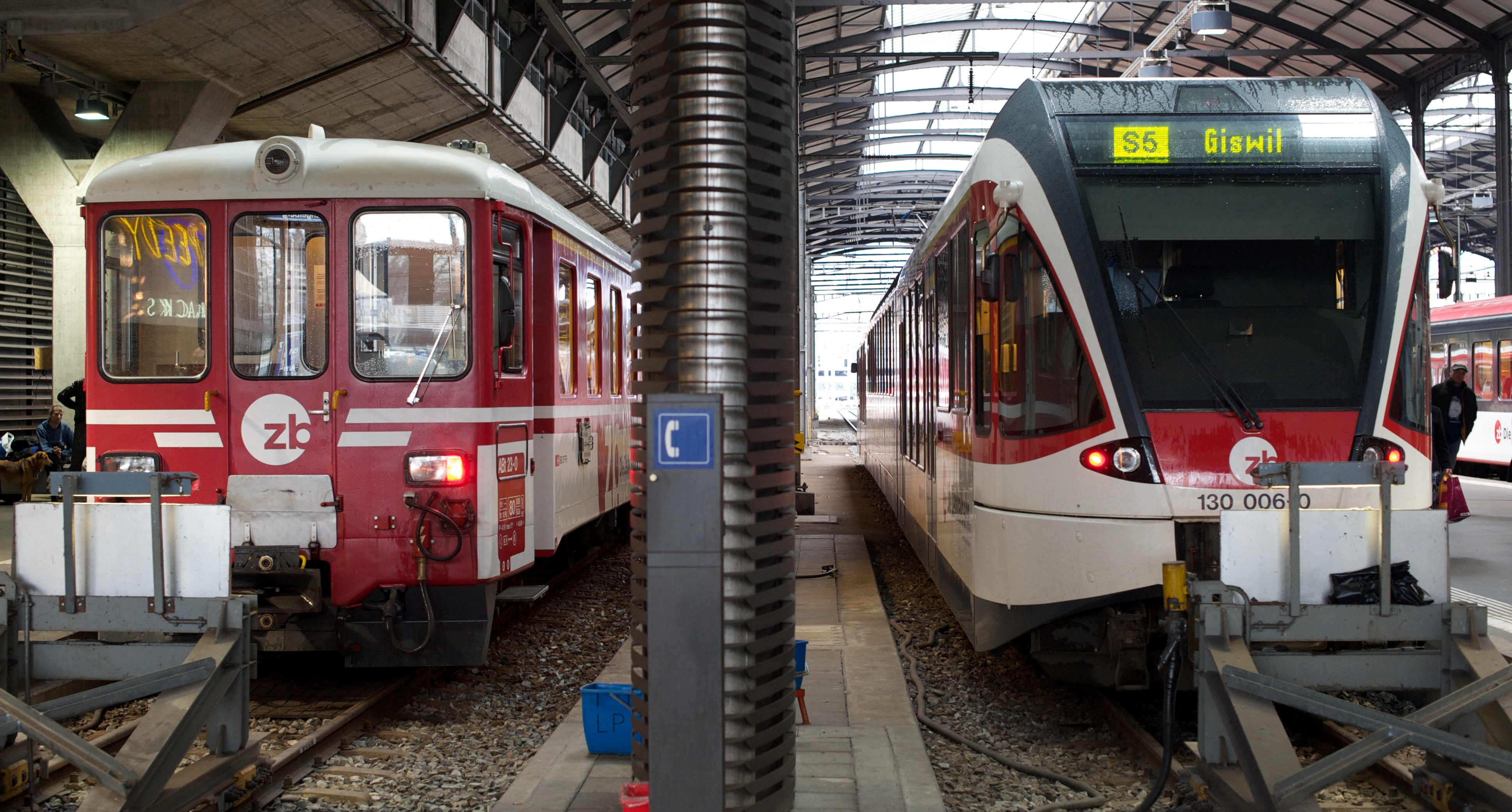 On the right, a narrow-gauge Stadler SPATZ (Schmalspur Panorama Triebzug). Luzern.